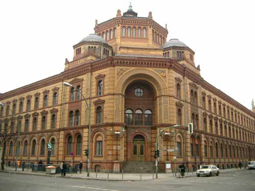 The so-called "Postfuhramt" at Oranienburger Straße (Berlin-Mitte)